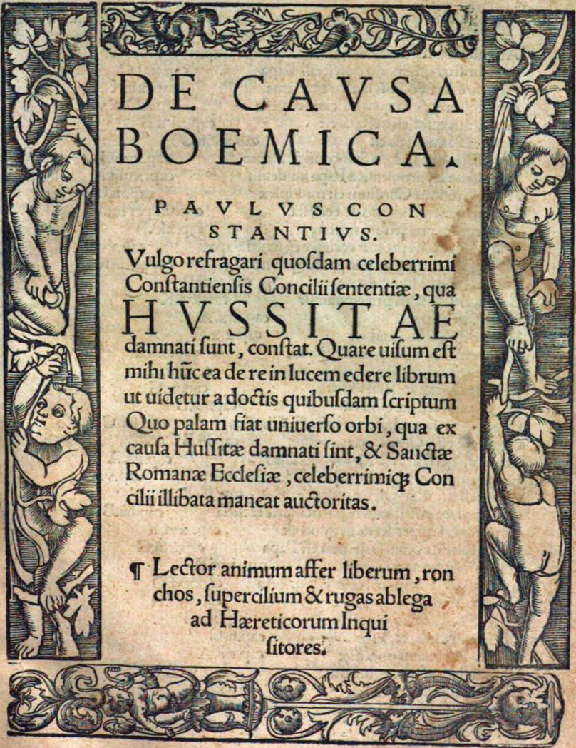 Jan Hus: De ecclesia. Cover of the first edition 1520 with the title De causa bohemica. Printed by Thomas Anshelm, Hagenau.